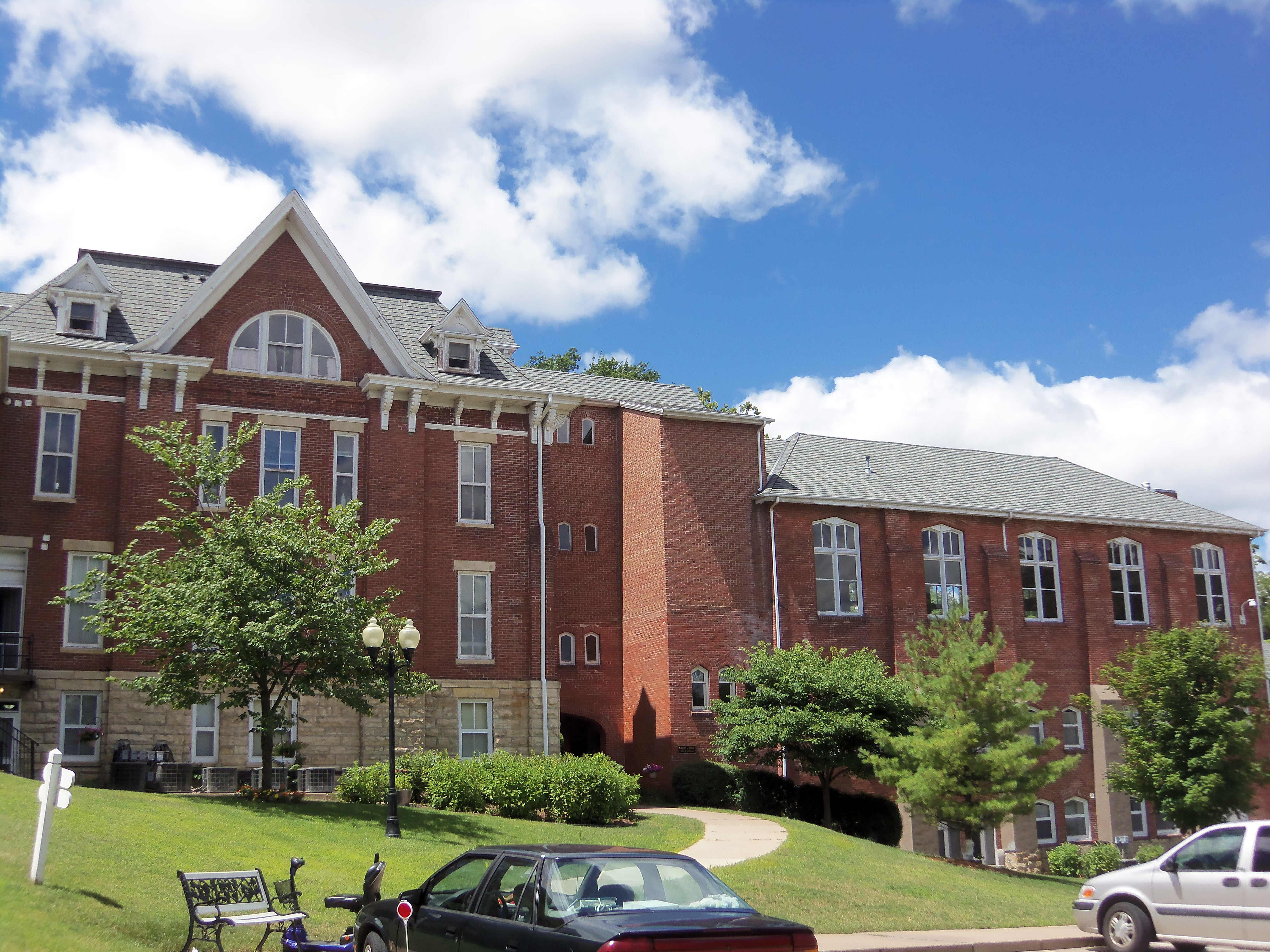 St. Mary's Hall at the former St. Katharine's School in Davenport, Iowa.